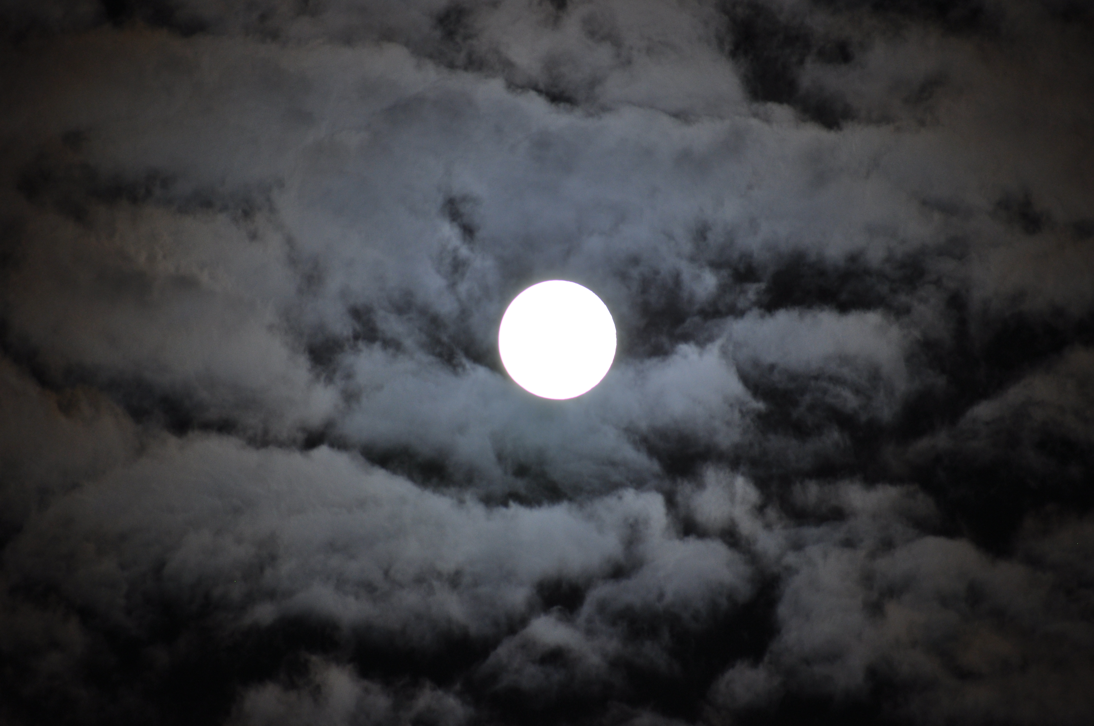 A Harvest moon viewed from North Texas in 2010